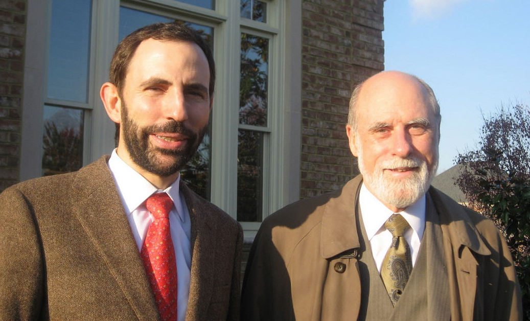 2007-11-30 in McLean Virginia. With my good friend, mentor and patron: Vint Cerf. During one of his personal interviews.